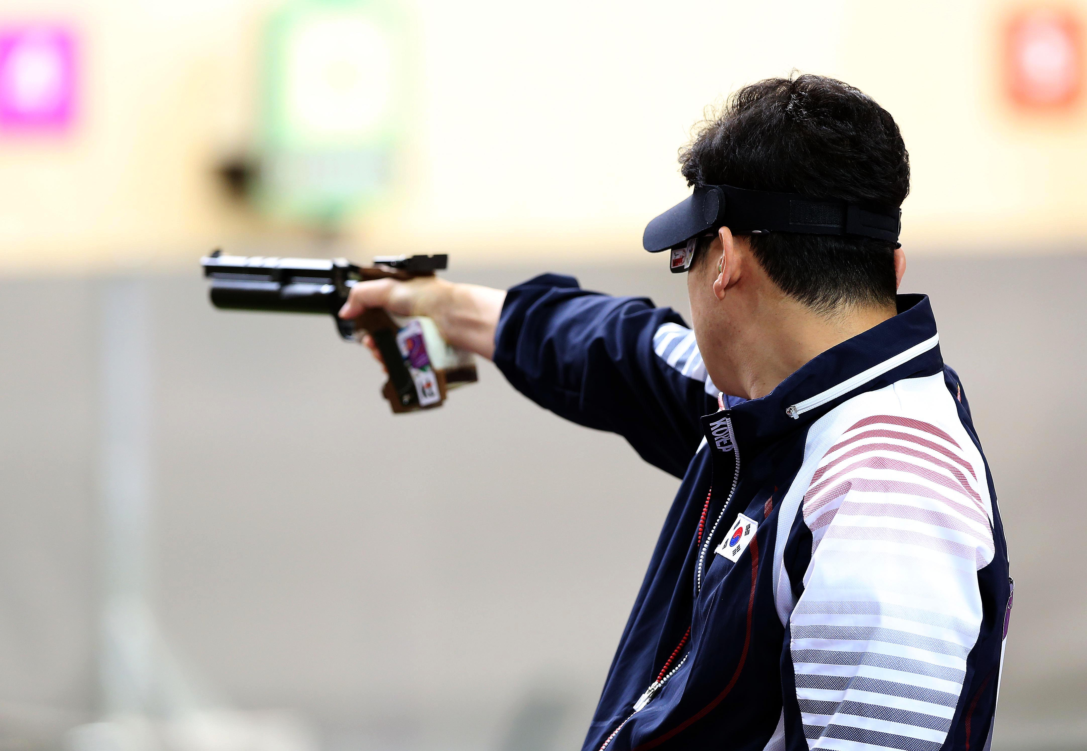 2012 London Olympic Games Korea JIN Jongoh won the gold medal Men's 10 meter air pistol final in the Olympic Games Shooting competition at the Royal Artillery Barracks. 2012.7.29. Photo by Korean Olympic Committee Ministry of Culture, Sports and Tourism Korean Culture and Information Service 2012 런던 올림픽 진종오 남자 10m 공기 권총 금메달 획득 사진제공 - 대한체육회 문화체육관광부 해외문화홍보원